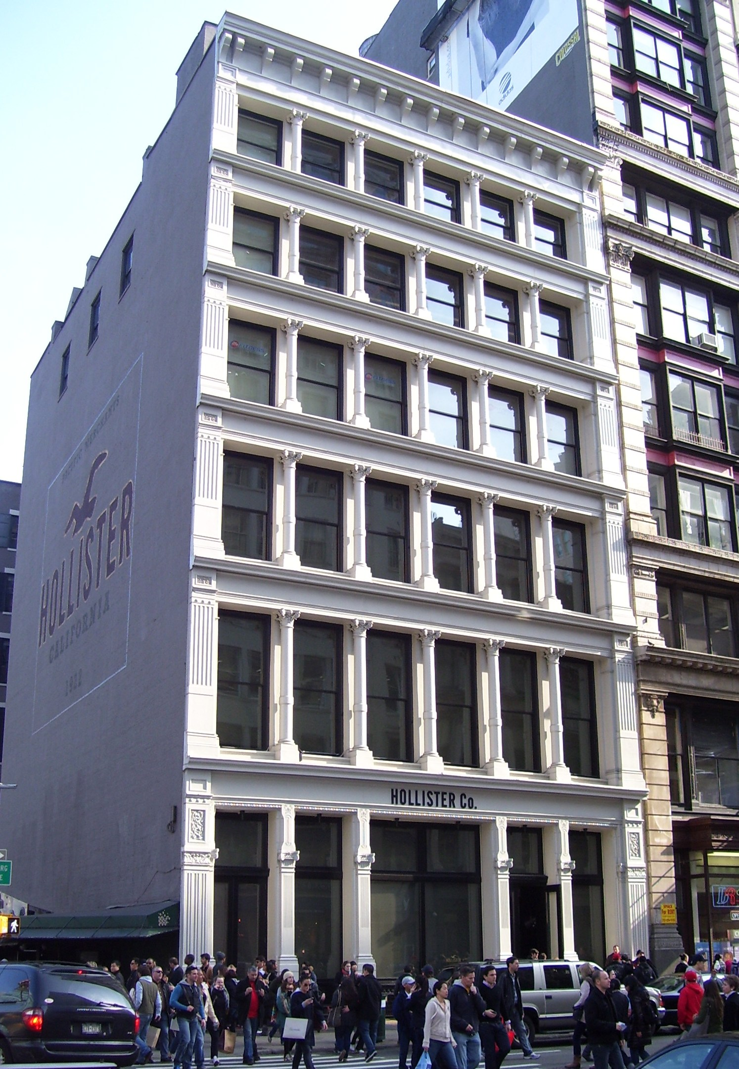 600 Broadway (600-602), on the corner of East Houston Street in the SoHo neighborhood of Manhattan, New York City, was built in 1883-84 and designed by Samuel A. Warner. The cast-iron building goes through to Crosby Street, where it is 134-136 Crosby Street. (Source: NYCLPC Soho-Cast Iron Historic District Designation Report)